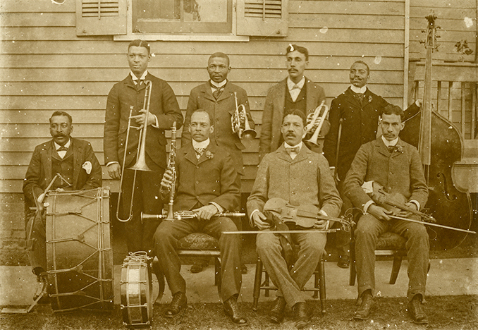 The John Robichaux Orchestra of New Orleans, 1896. Seated, left to right: Dee Dee Chandler, drums; Charles McCurdy, clarinets; John Robichaux, violin & leader, Wendell MacNeil, violin. Standing, left to right: Batiste DeLisle, trombone; James Wilson, cornet; James MacNeil, cornet; Octave Gaspard, string bass. (per "New Orleans Jazz, A Family Album" by Rose & Souchon)